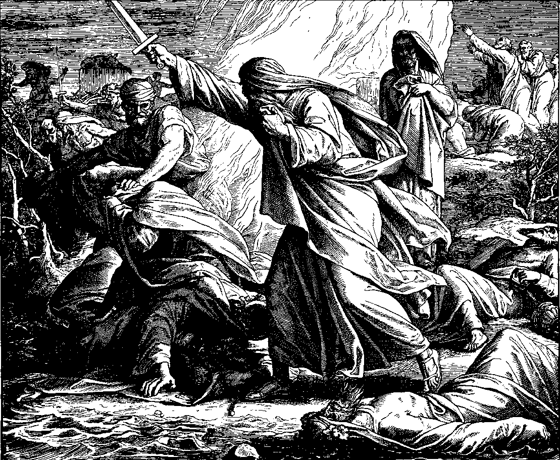 Woodcut for "Die Bibel in Bildern", 1860. Elijah kills the Ba'al priests.